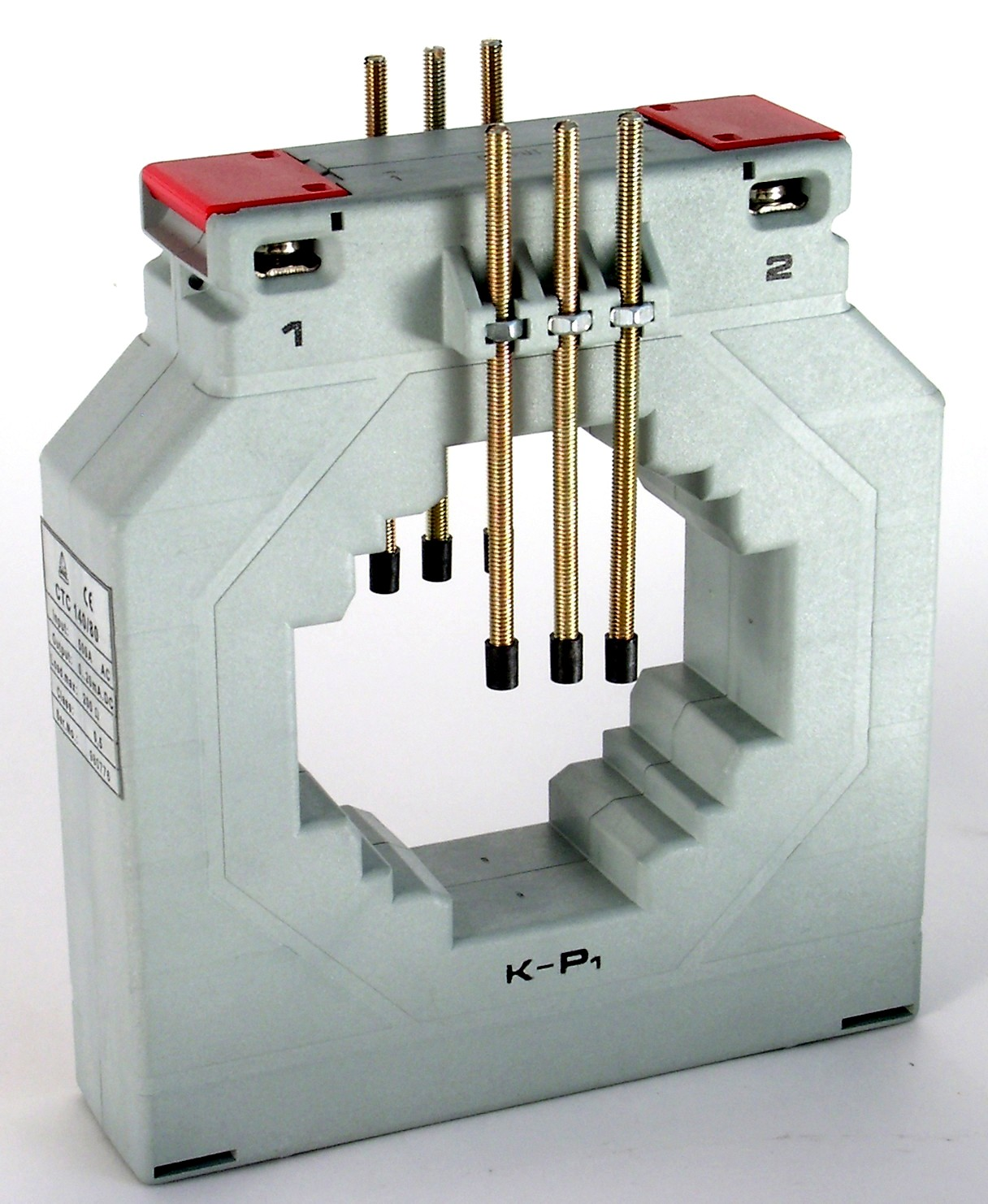 Current transformer+transducer